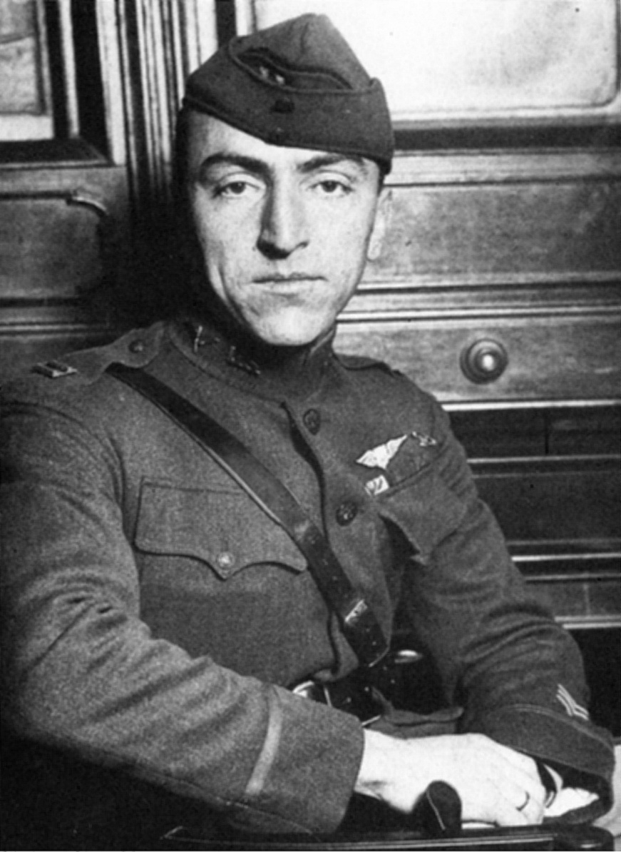 Captain Edward Rickenbacker, America's premier "Ace" officially credited with 22 enemy planes and the proud wearer of the French War Cross as he appeared upon his arrival on board the Adriatic. Underwood and Underwood., ca. 1919